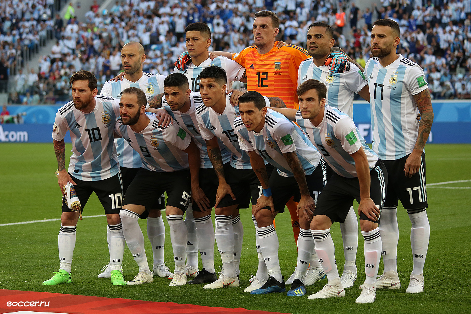 Argentina vs Nigeria match